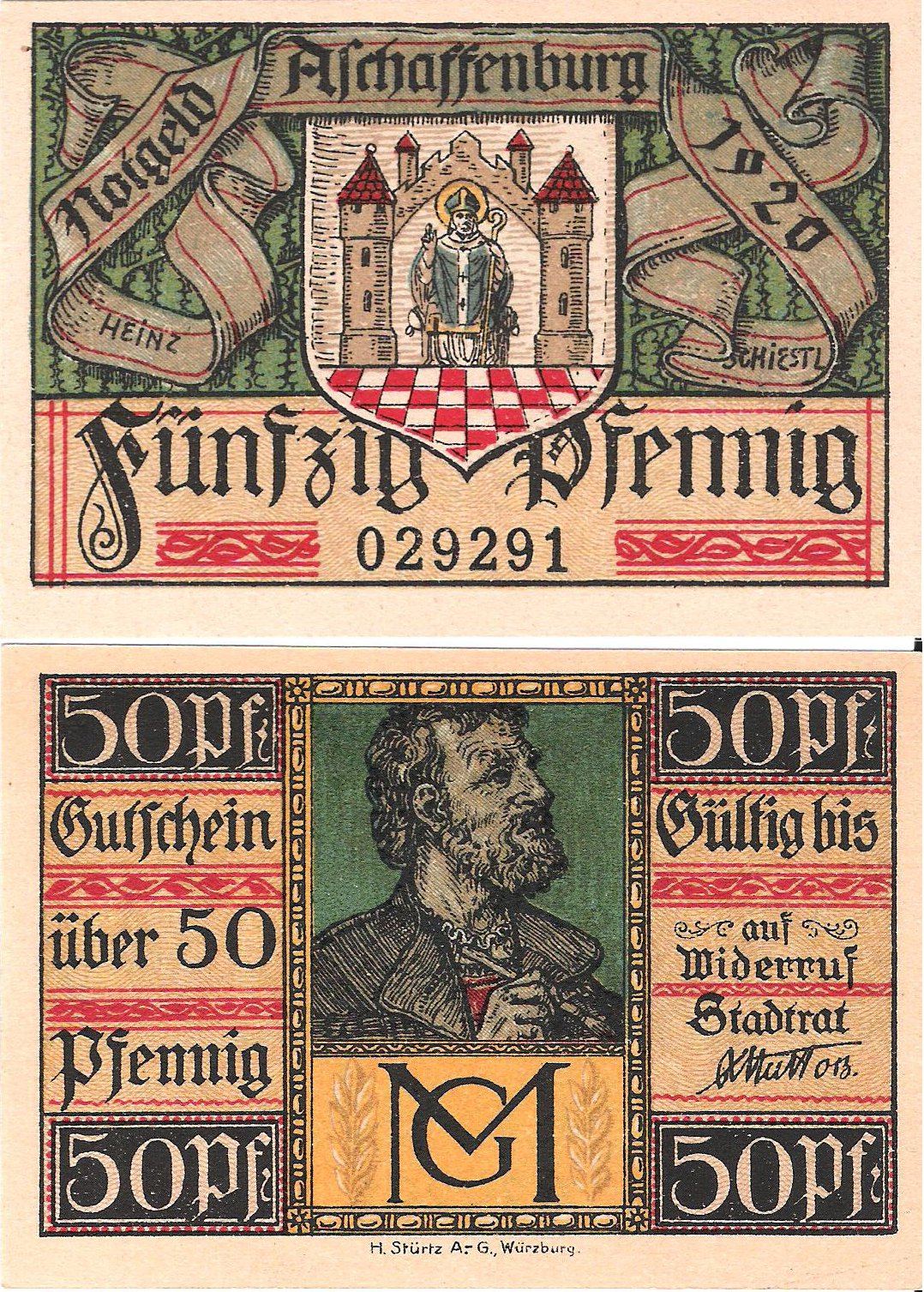 local emergency money, Aschaffenburg 1920